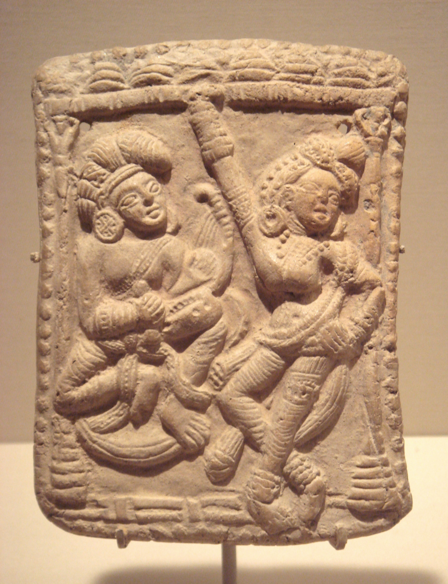 Royal_family_Sunga_West_Bengal_1st_century_BCE